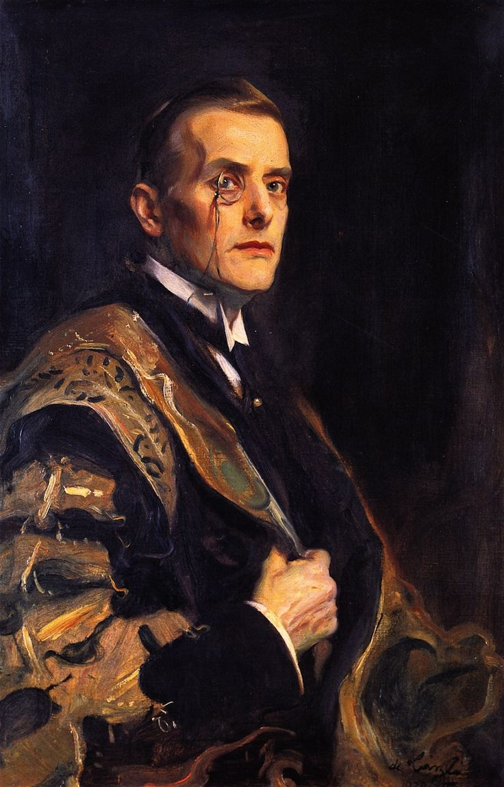 Portrait of The Rt. Hon. Sir Austen Chamberlain